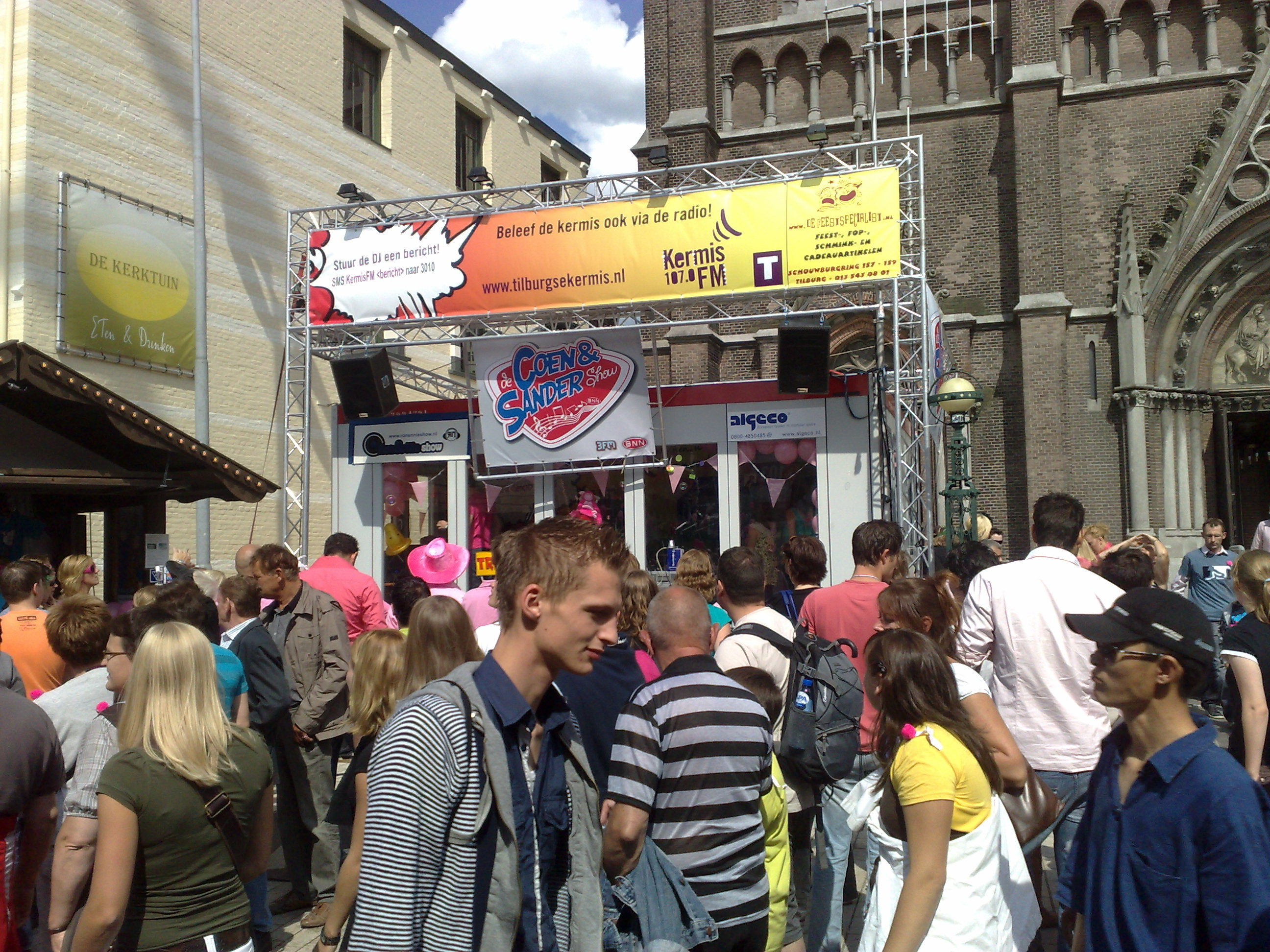 Studio van KermisFM